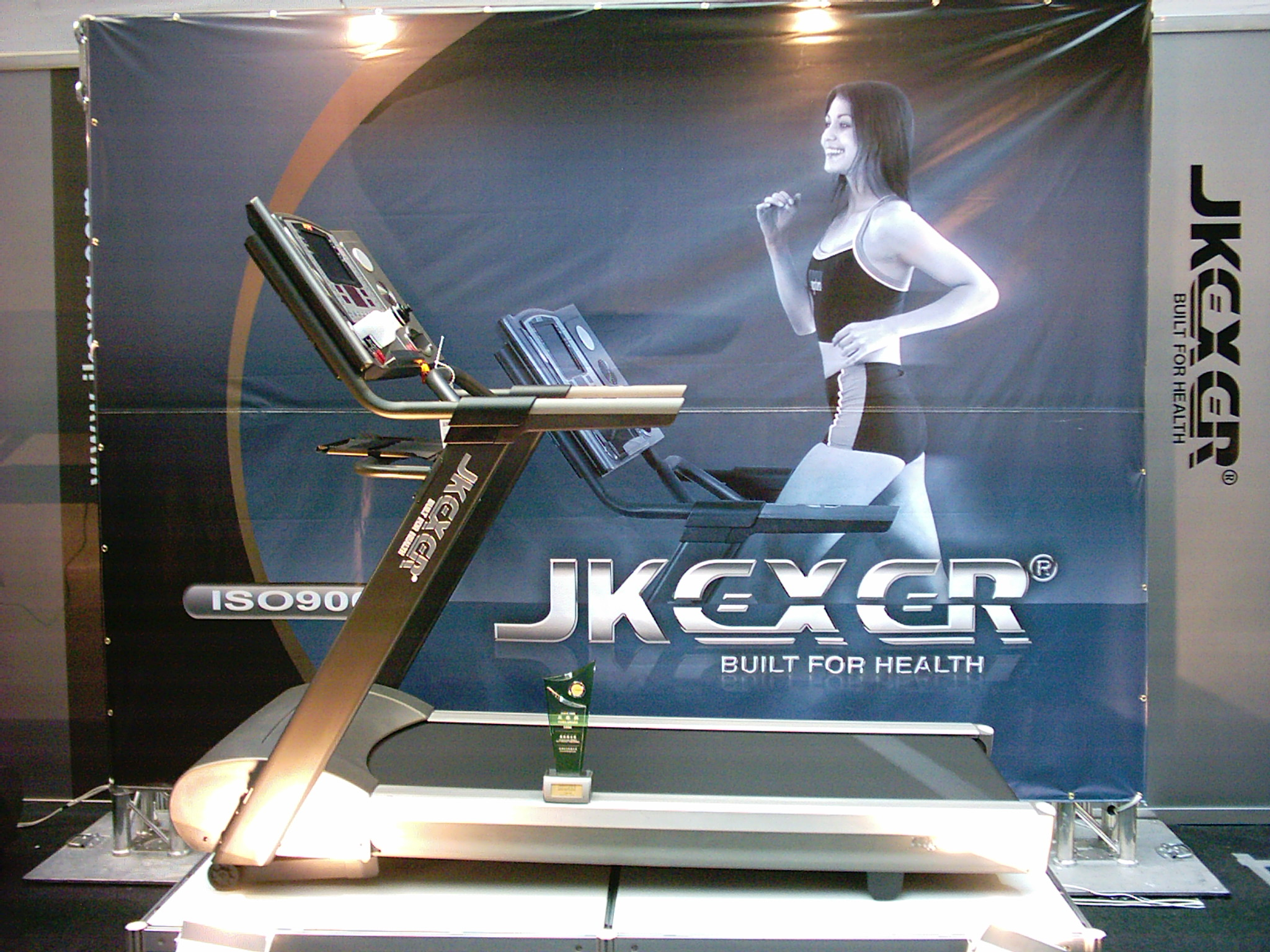 JKEXER 9860A Treadmill won the 4th TSMA Award at 2006 TaiSPO.